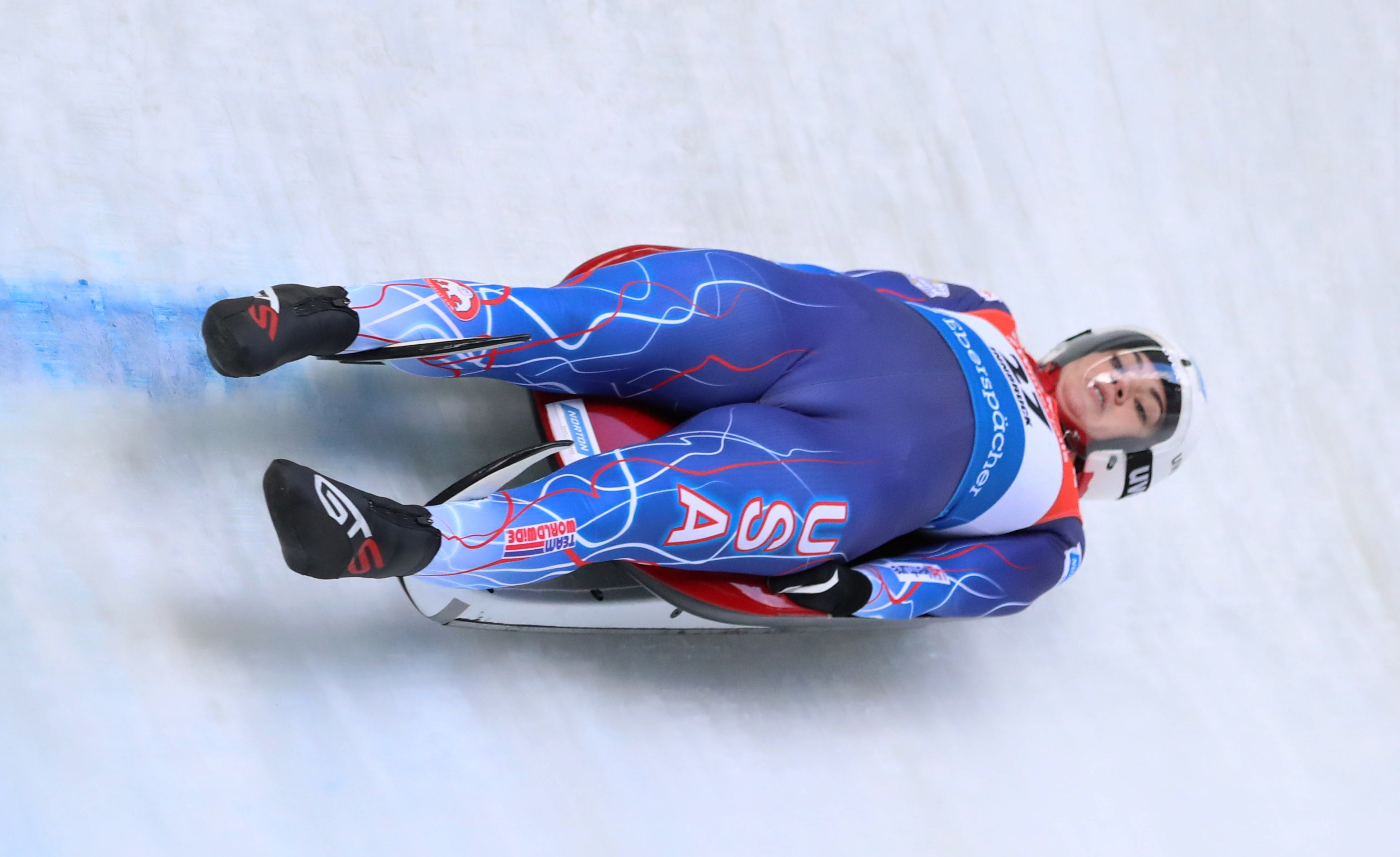 Women's World Cup race at the 2018/19 Luge World Cup in Innsbruck-Igls